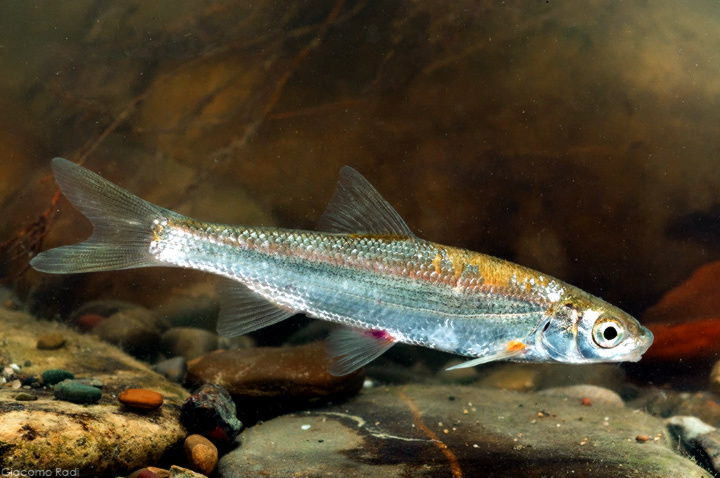 Juvenile Protochondrostoma genei collected in Ombrone river, Grosseto province, Tuscany.